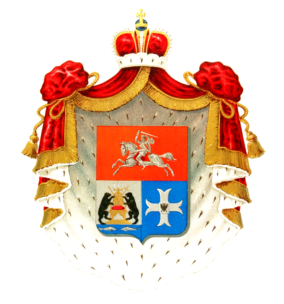 Coat of Arms of Golitsyny family